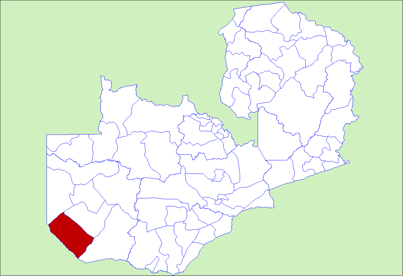 District locator in Zambia